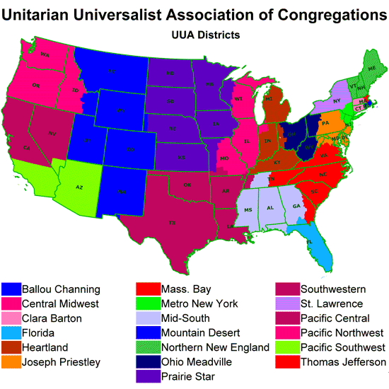 Passed around freely, originally from , if I'm correct.